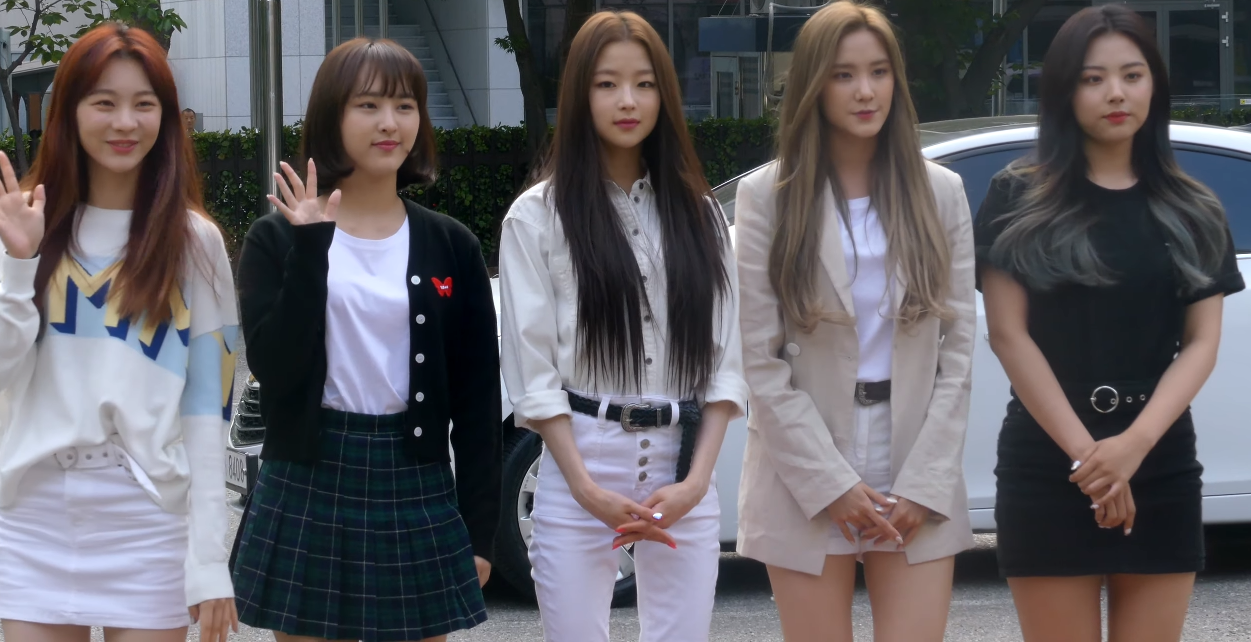 BVNDIT going to a Music Bank recording on May 31, 2019.